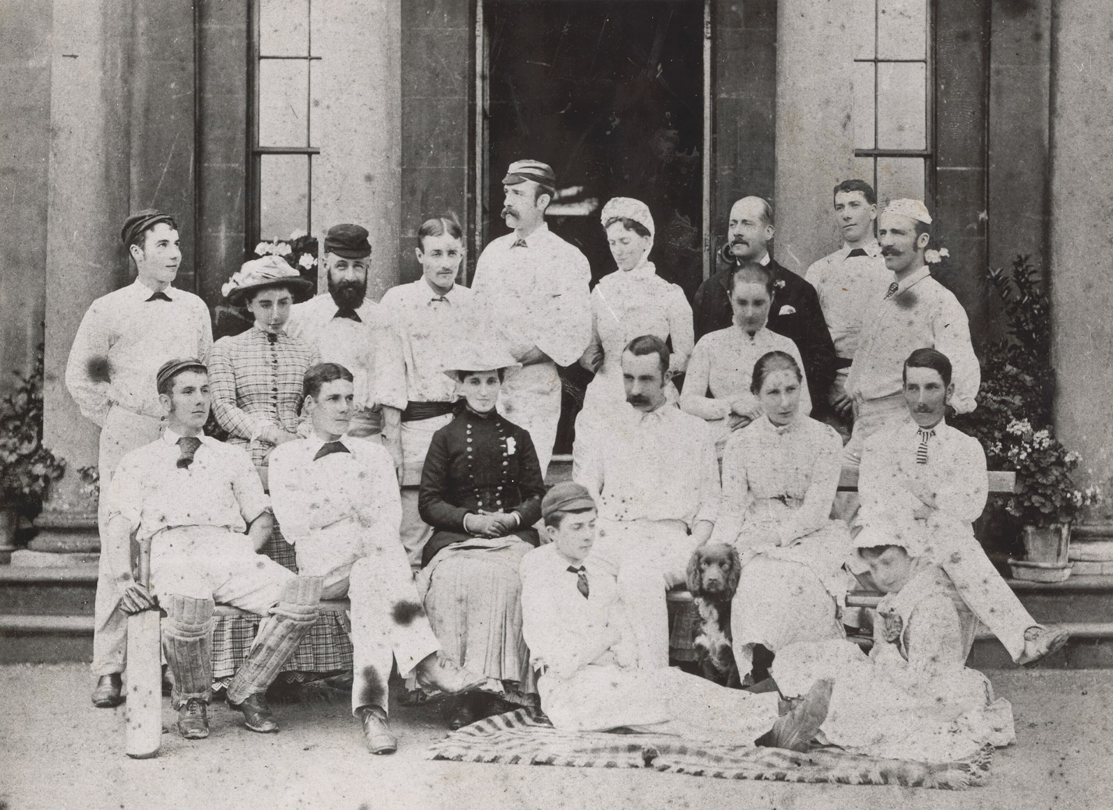 1884 Cricket Team made up entirely of Robinsons descended from Edward Robinson 1792-1870 who took on a cricket team made up entirely of Graces in 1891. Backwell House From left back: Edgar, Theo., Harold, Arthur, Frank (12th Man), Alfred, Sydney. Sitting: Cres., Alec., Walter, Wroughton, Kossuth